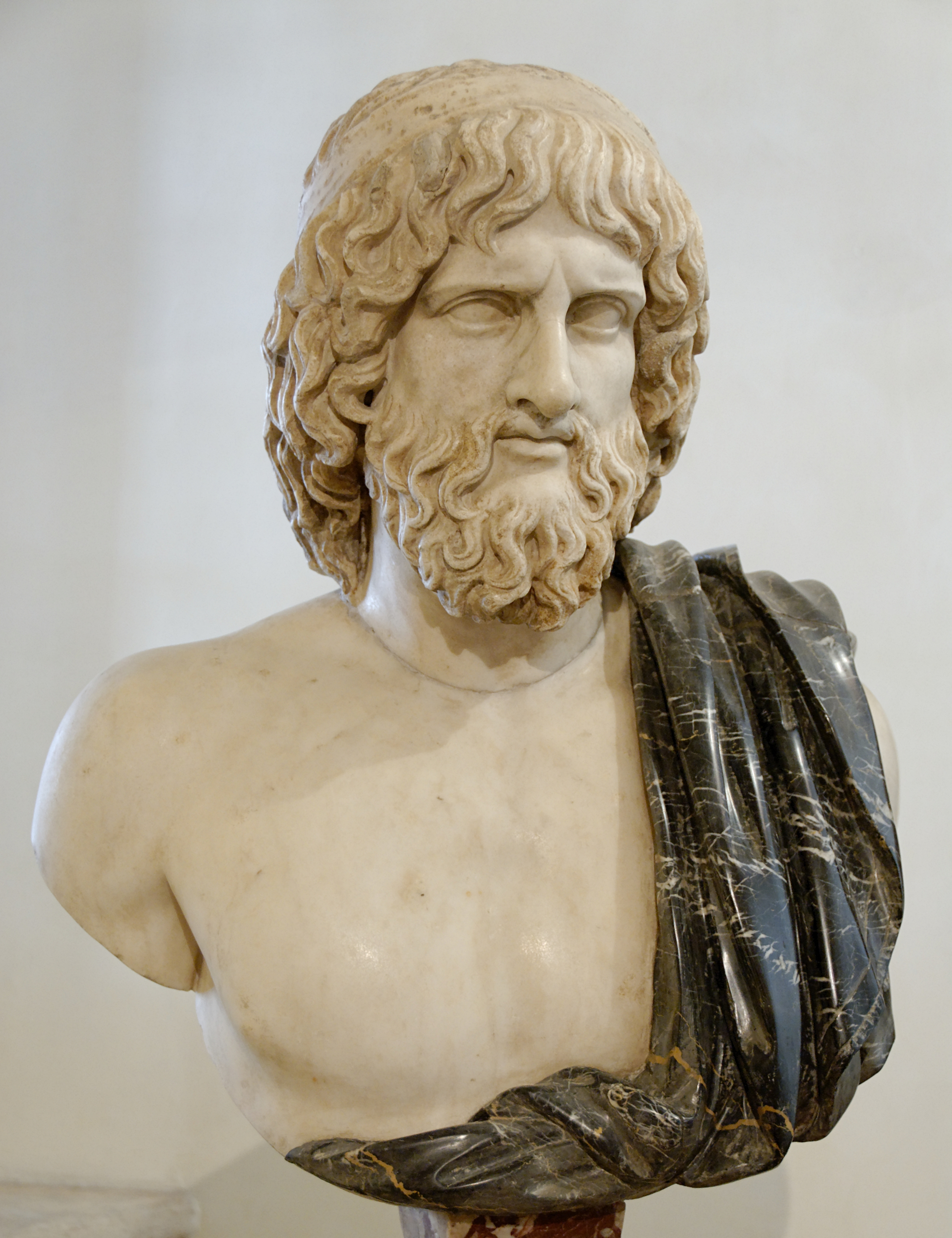 Bust of Hades. Marble, Roman copy after a Greek original from the 5th century BCE; the black mantle is a modern addition.